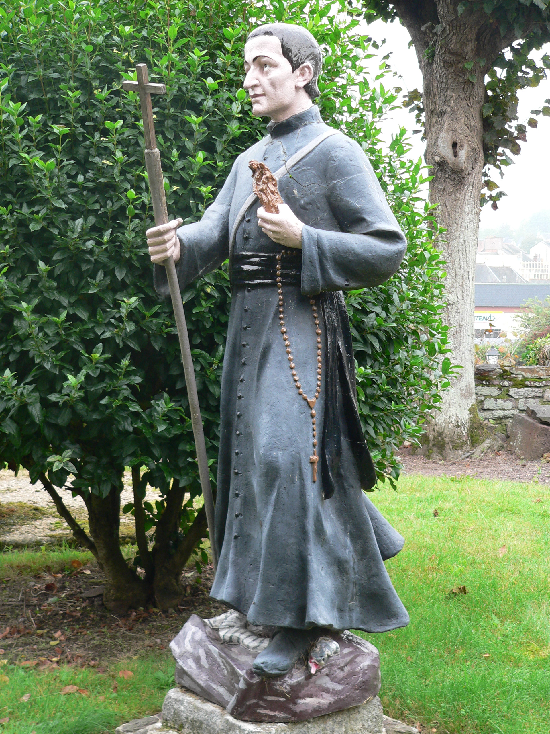 Famous character in Montfort-sur-Meu